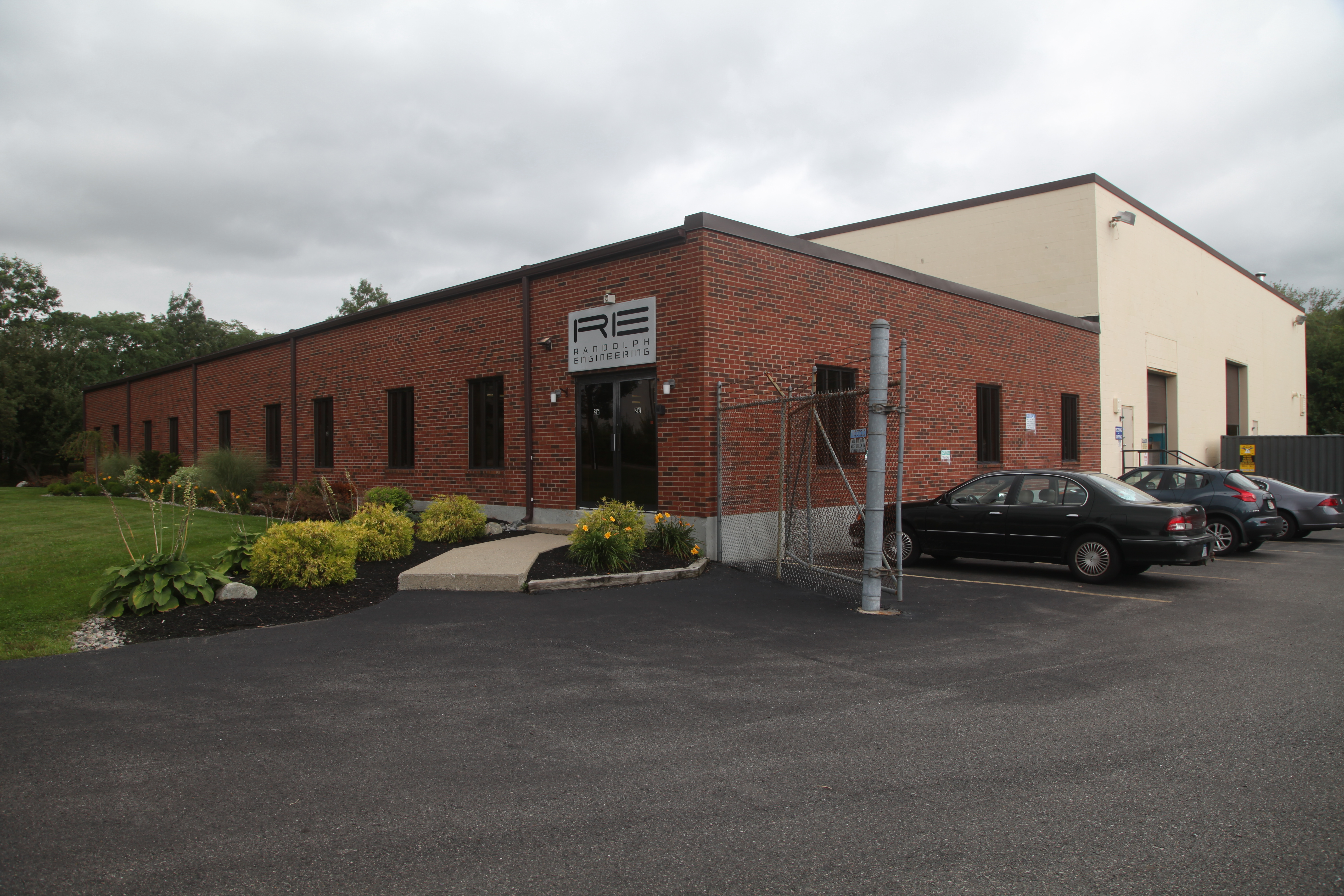 Photograph of the Randolph Engineering, Inc. manufacturing facility in Randolph, MA. Taken in 2013